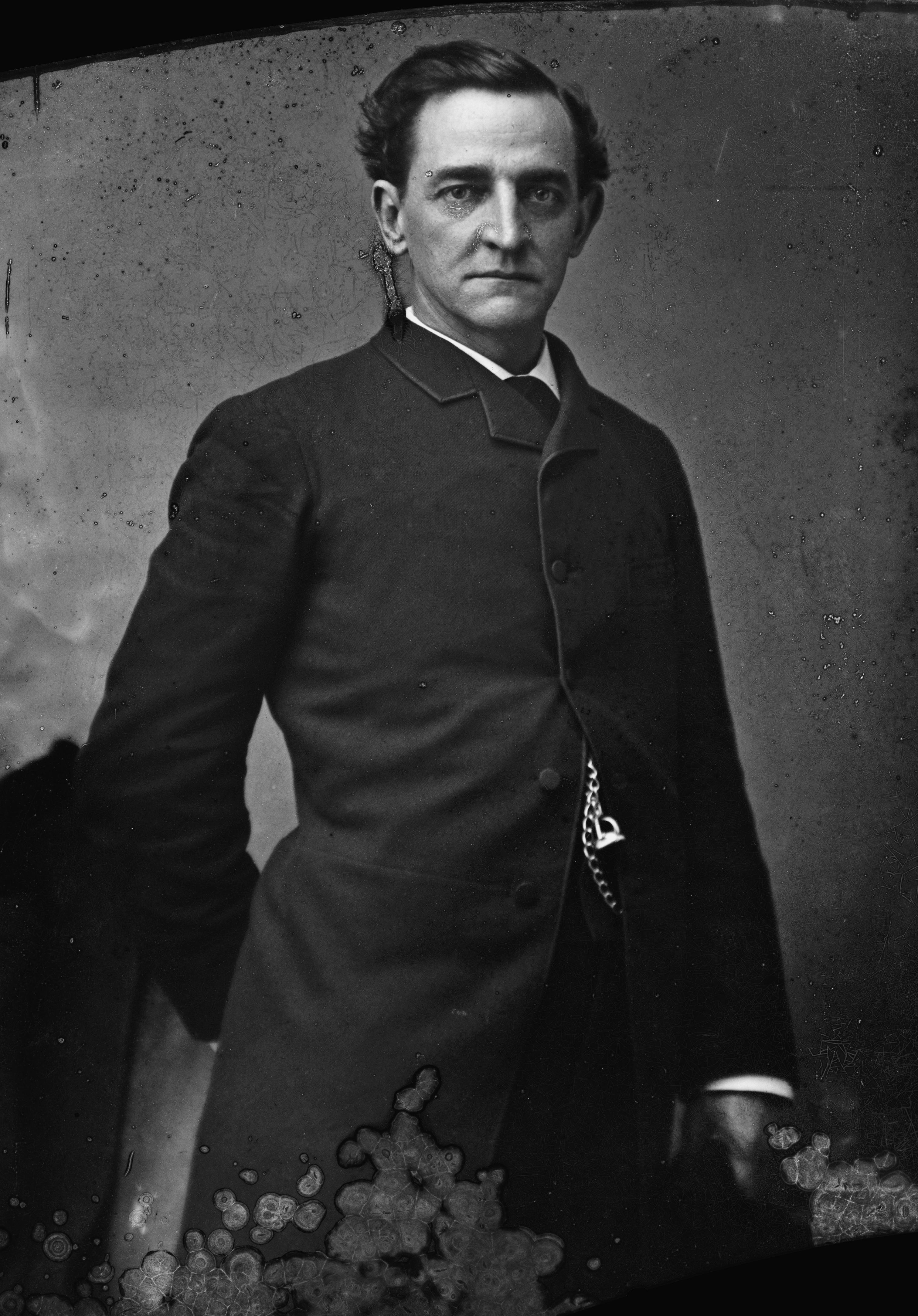 John W. Daniel. Library of Congress description: "Daniel, Hon. John W. of Va., 1829, Chief of staff of Joseph Early."